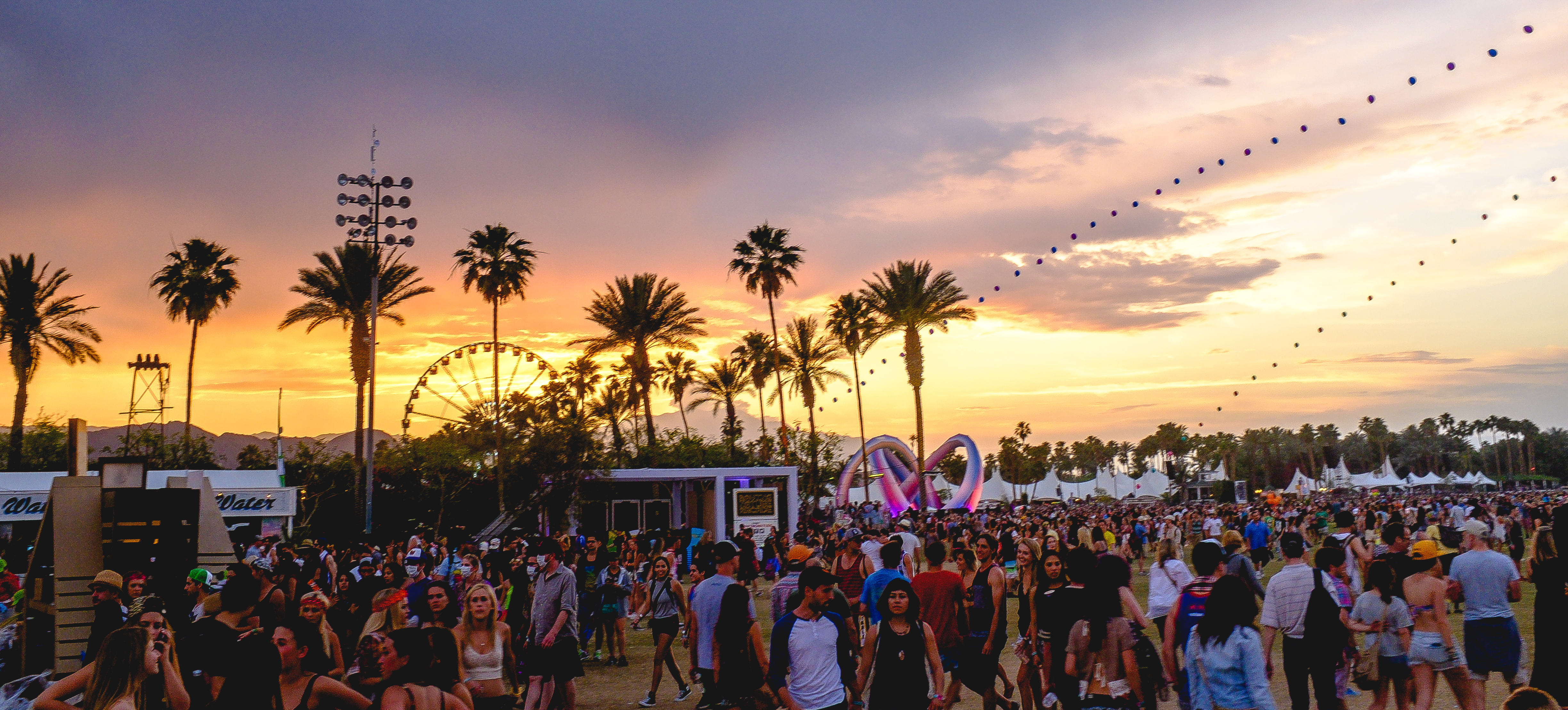 Sunset during Coachella 2014, with the balloon chain and Lightweaver art installation visible